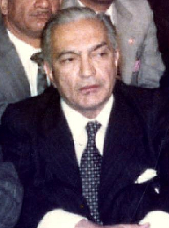 Depicted person: Mustafa Khalil – Egyptian Prime Minister